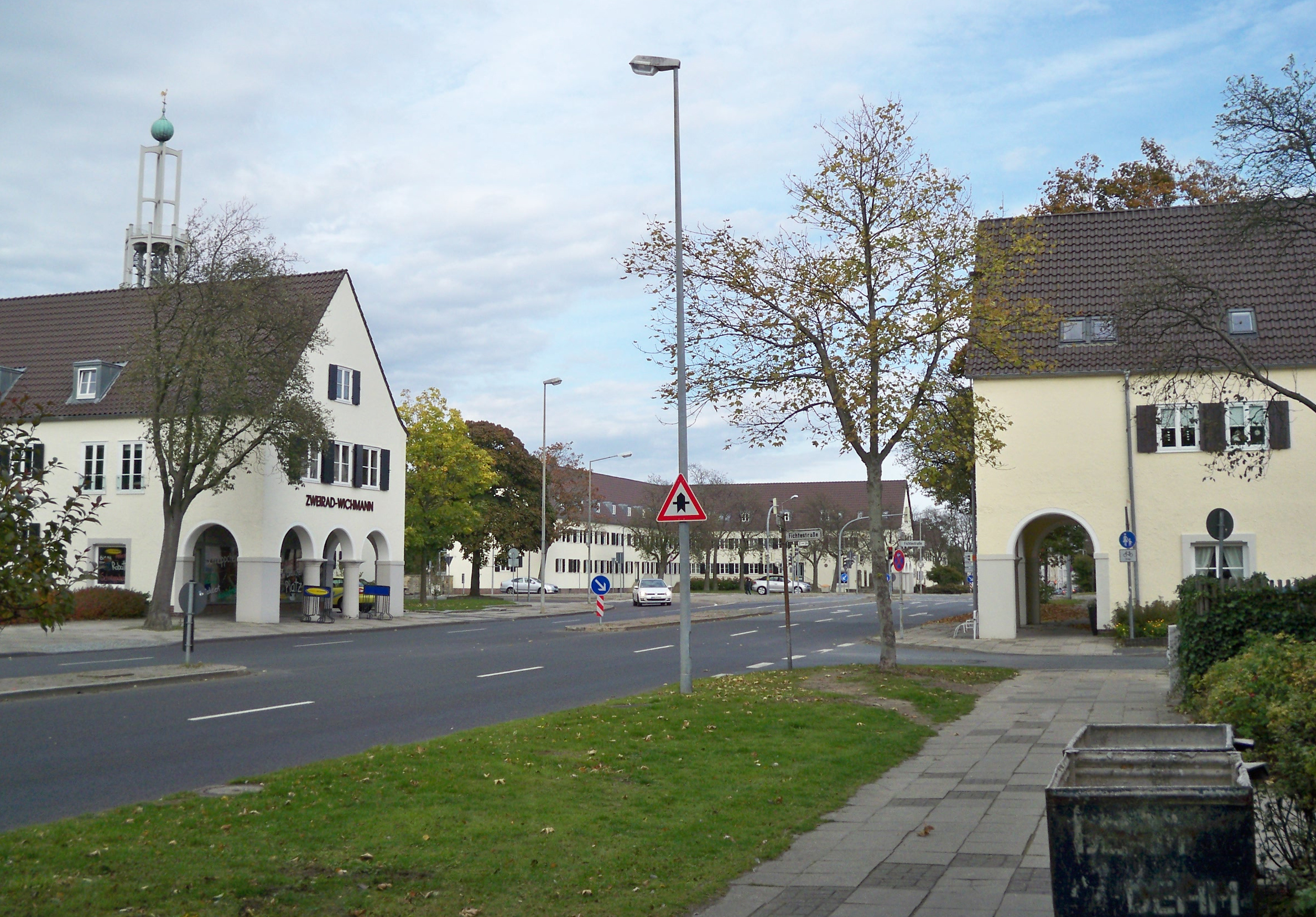 Wolfsburg, Lower Saxony, corner Friedrich-Ebert-Straße/Pestalozziallee, buildings from ca. 1940 (except for church tower in the background, 1951)